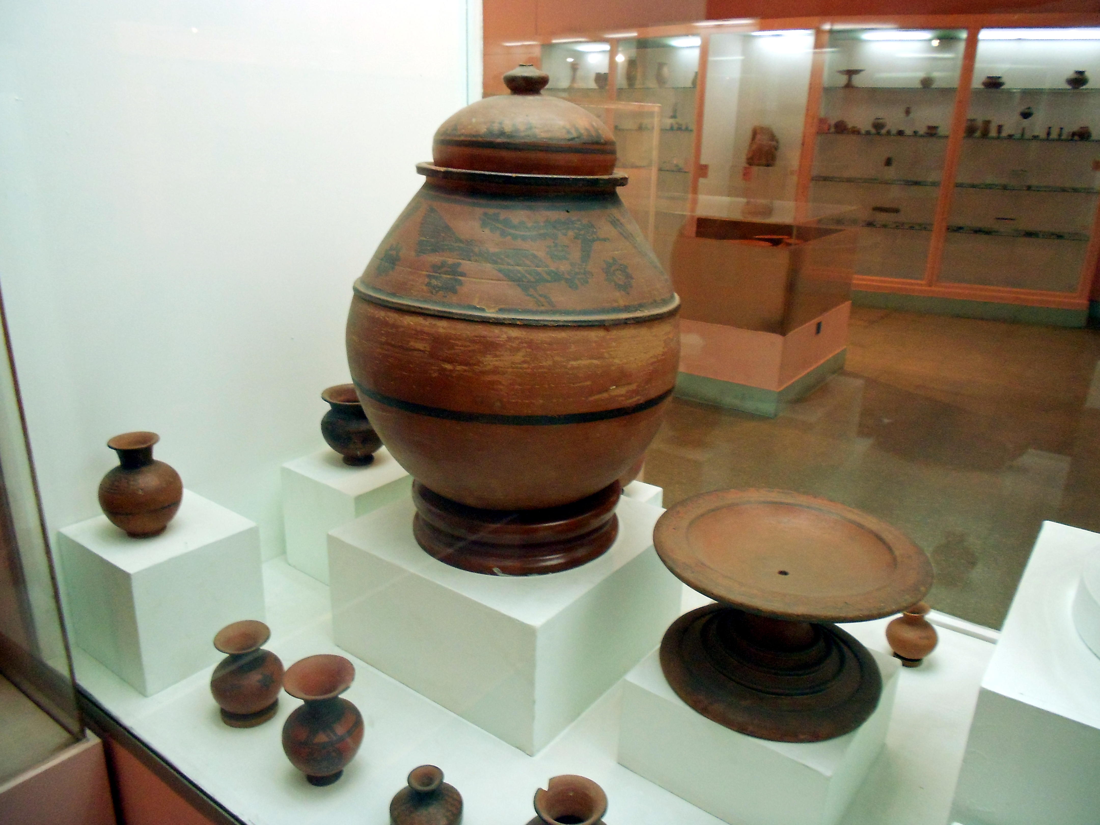 Pottery, National Museum, New Delhi